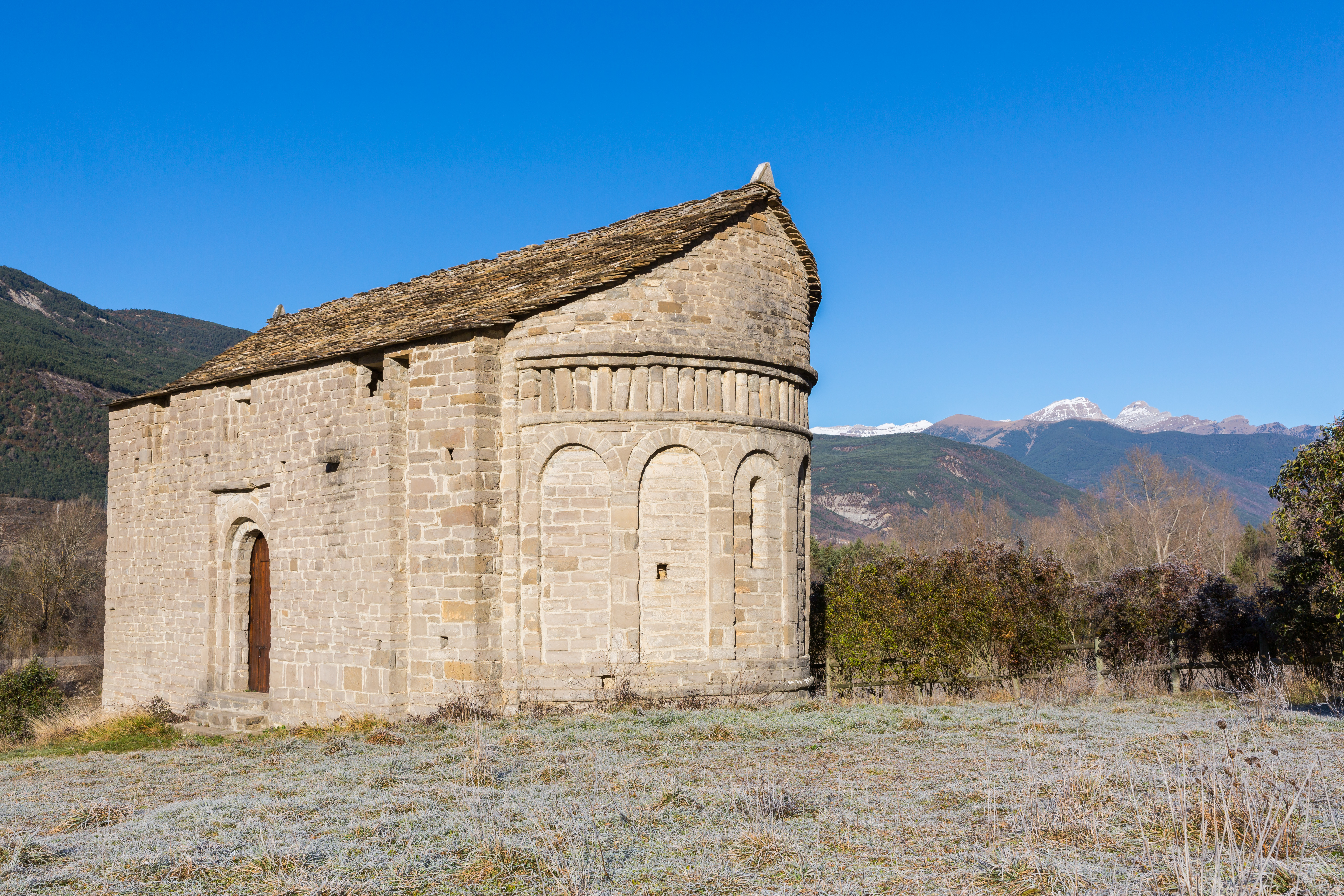 St John of Busa, Oliván, Huesca, Spain